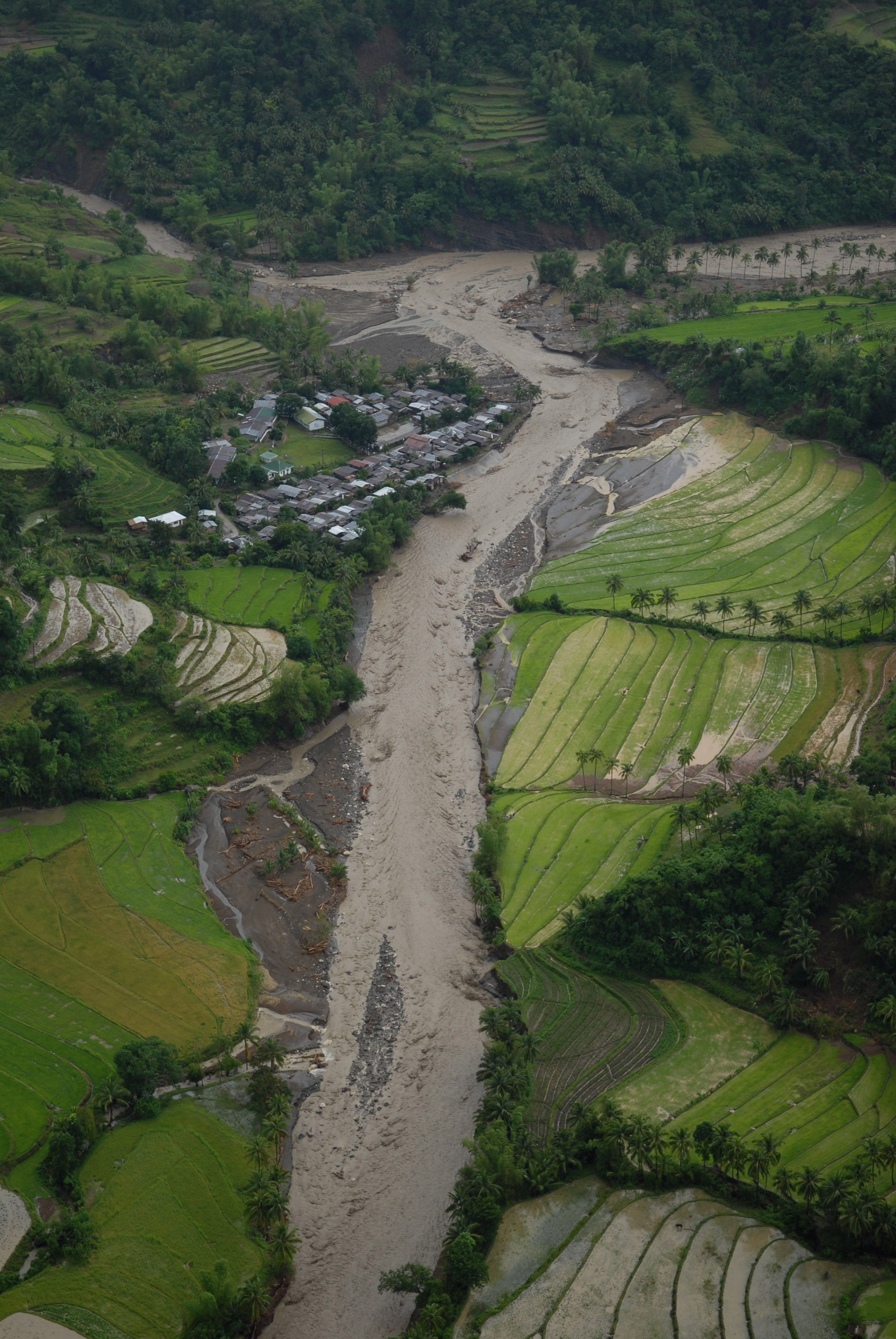 ILOILO, Philippines (June 28, 2008) A flooded river near the city of Alimodian flows dangerously close to buildings. In the wake of Typhoon Fengshen, portions of the Island of Panay were hit hard and much damage was done. At the request of the government of the Republic of the Philippines, the Nimitz-class aircraft carrier USS Ronald Reagan (CVN 76) is off the coast of Panay Island providing humanitarian assistance and disaster response. Ronald Reagan and other U.S. Navy ships are operating in the 7th Fleet area of responsibility to promote peace, cooperation and stability. U.S. Navy photo by Mass Communication Specialist 2nd Class Jennifer S. Kimball (Released)